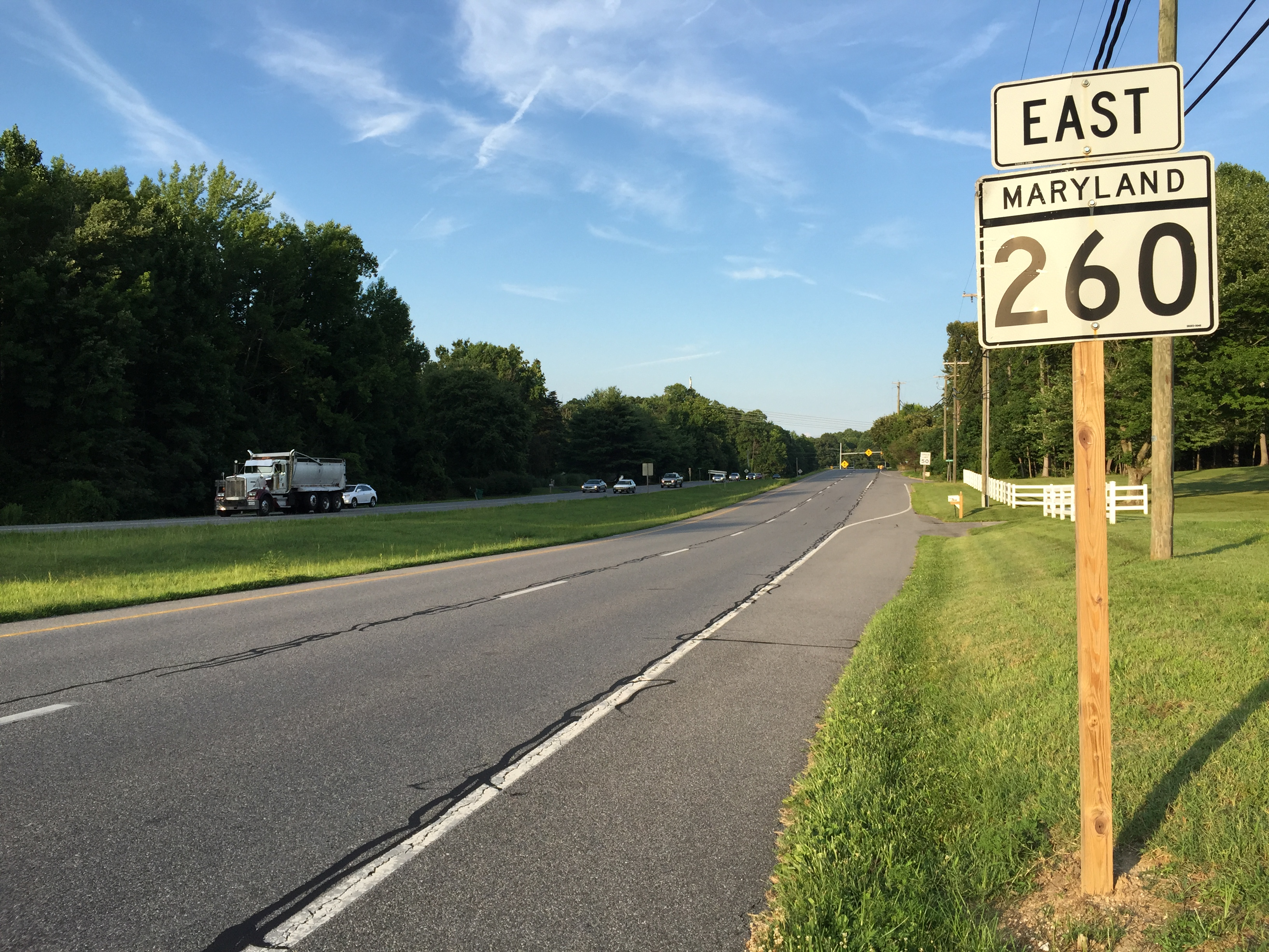 View east along Maryland State Route 260 (Chesapeake Beach Road) at Lafayette Drive in Owings, Calvert County, Maryland